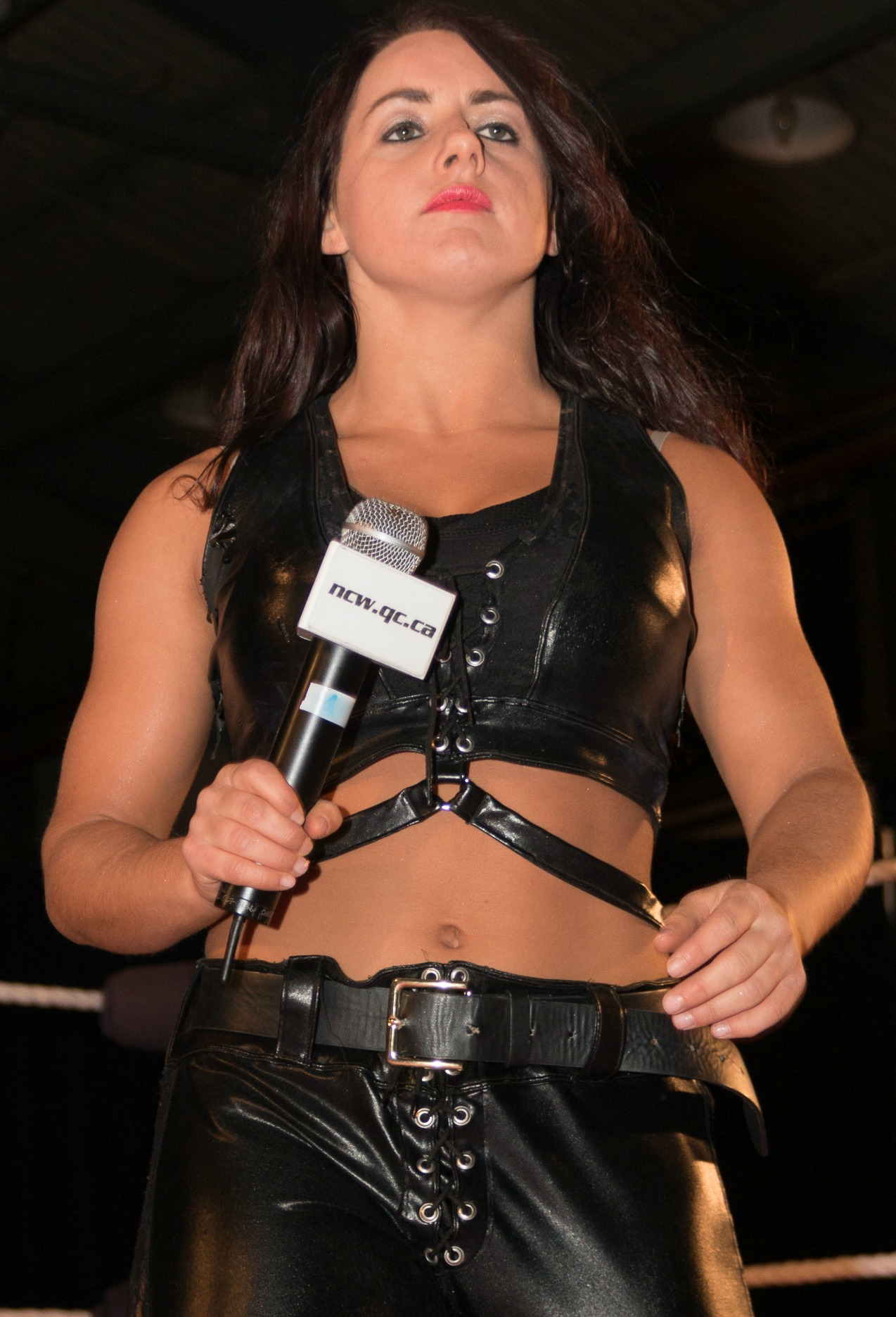 WWE's Nikki Cross wrestling as Nikki Storm during an NCW Femme Fatales show in April 2014. Cropped from the original to focus on the subject, second image.